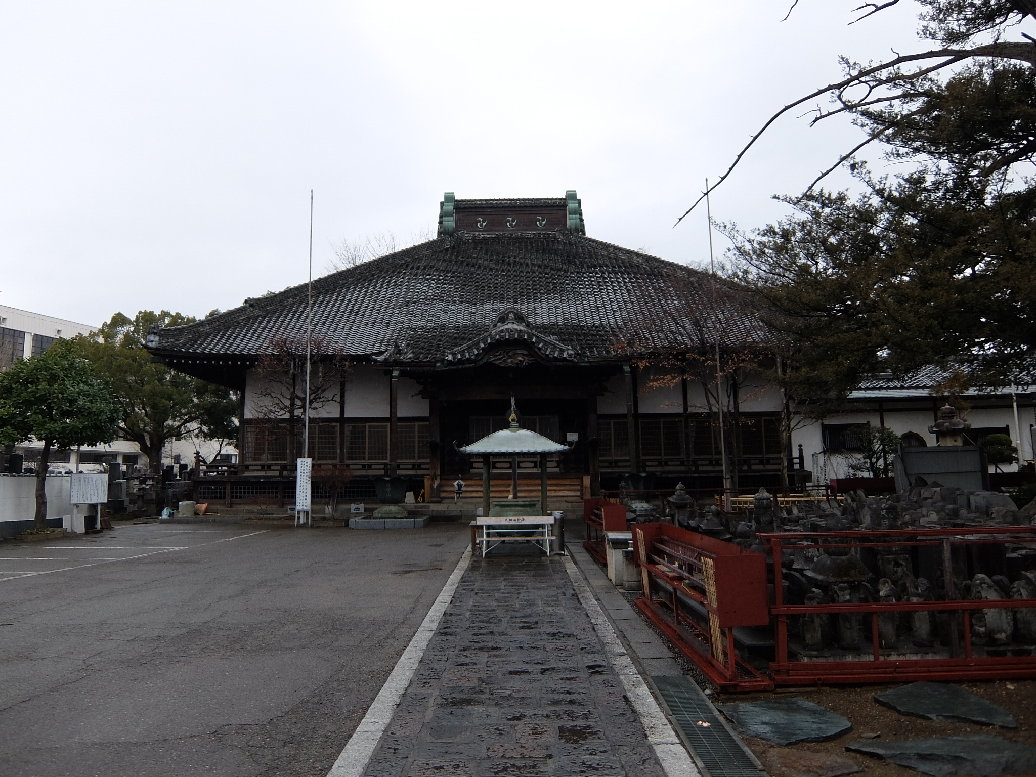 Jounji Temple in Gunma Prefecture Kiryu Japan